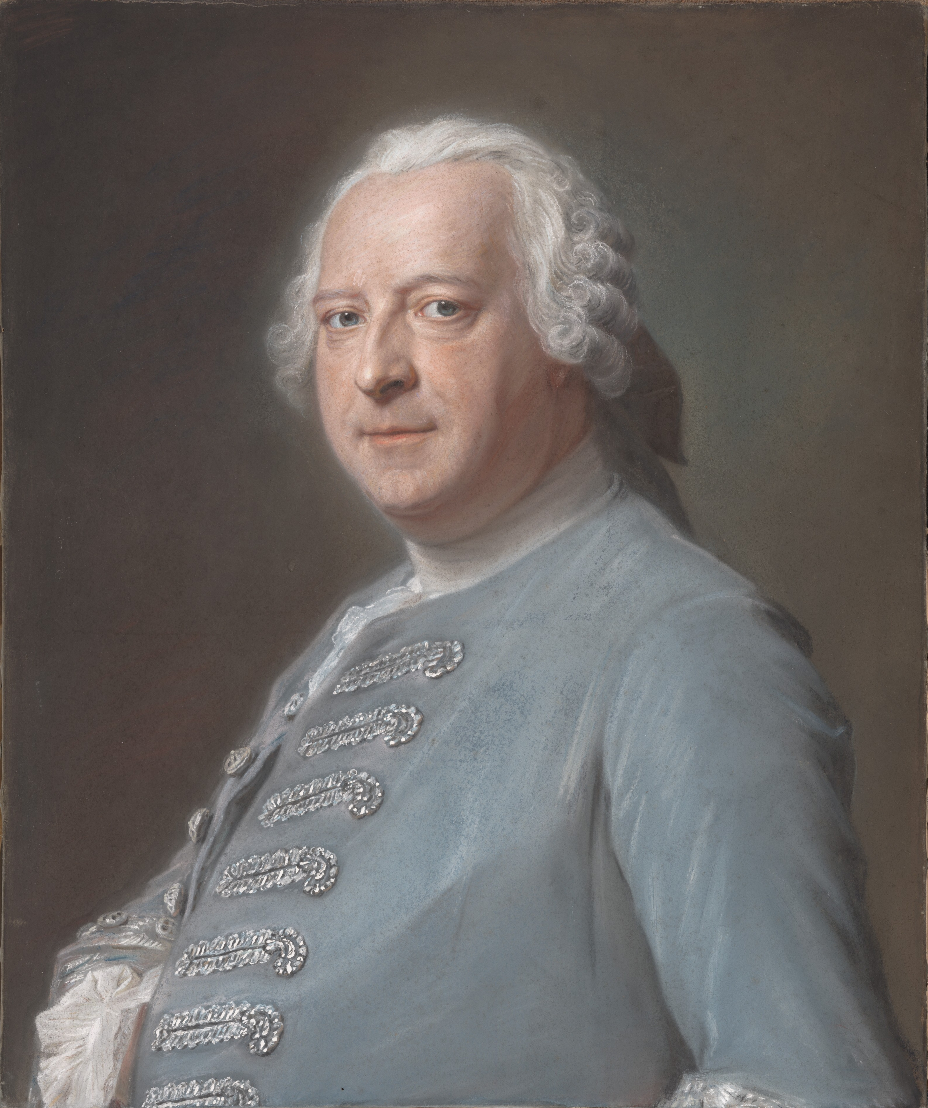 Depicted person: Jean-Charles Garnier d'Isle (1697-1755), French architect and landscape architect